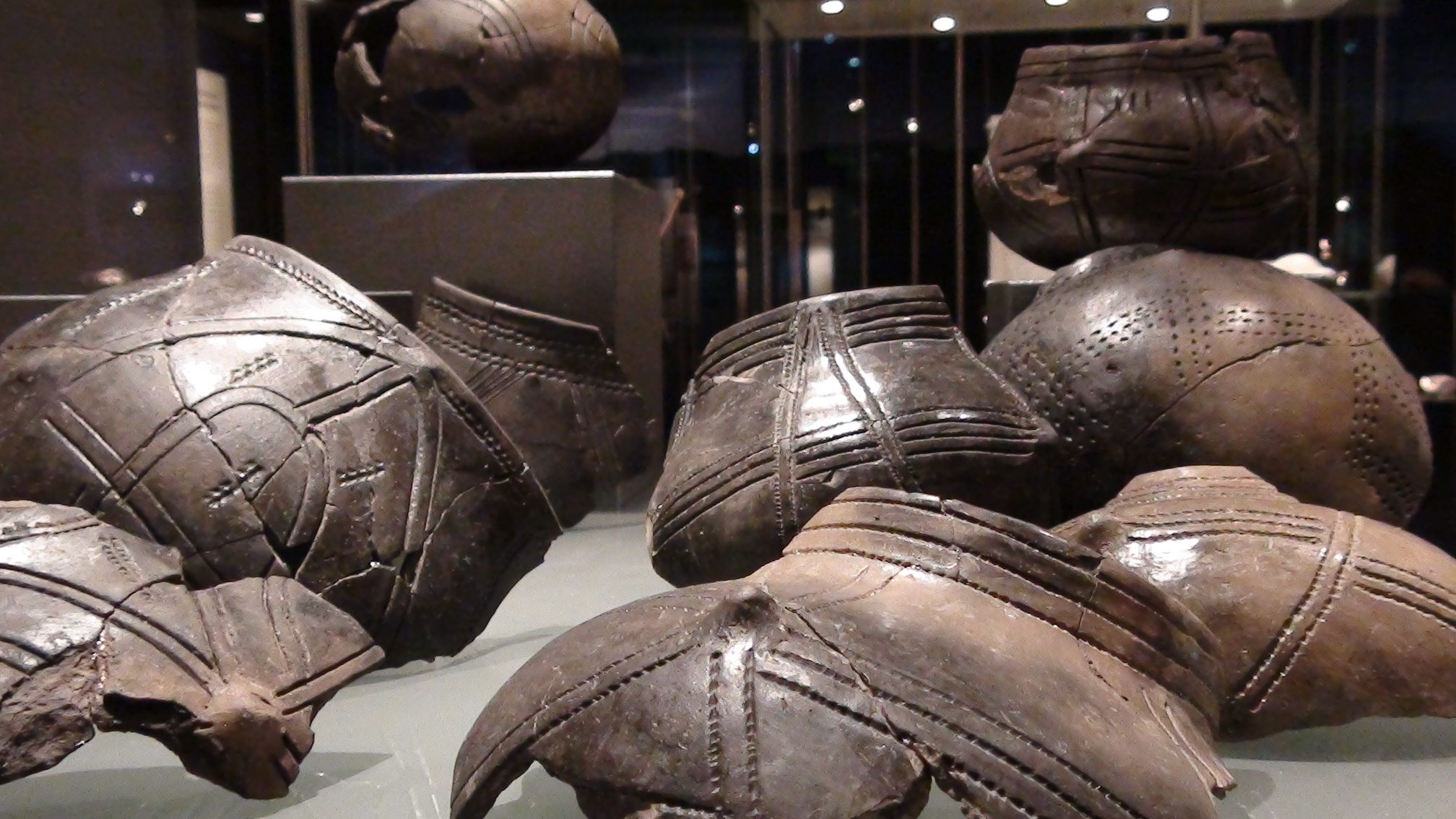 Finds of various styles of linear band ceramics. Front right is Palatinate style.